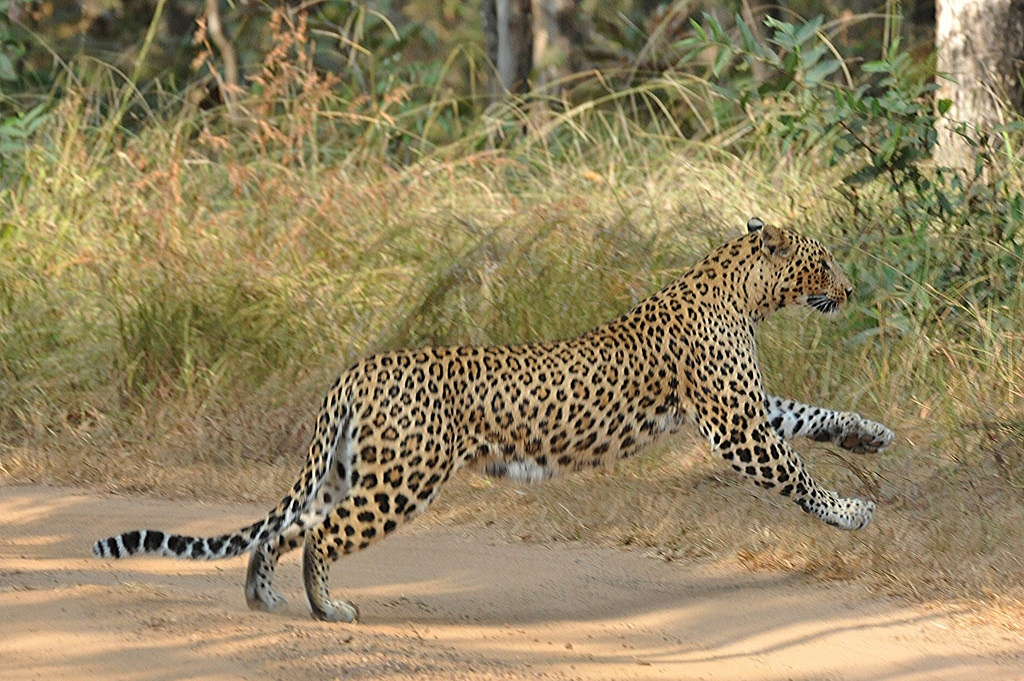 Hi, I am Akshit Deshlande. I am a wildlife photographer.I captured this image during my safari at Tadoba Andhari Tiger Reserve,Chandrapur